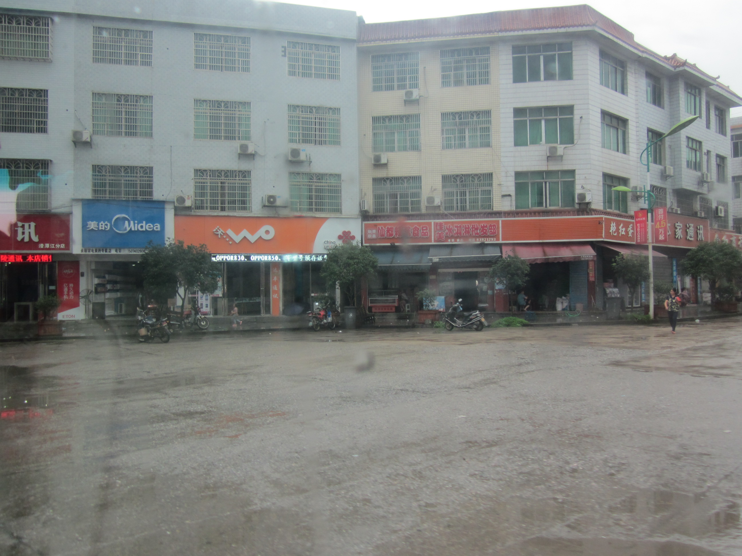 Residential buildings on both sides of the street in Chengtanjiang Town. Chengtanjiang (simplified